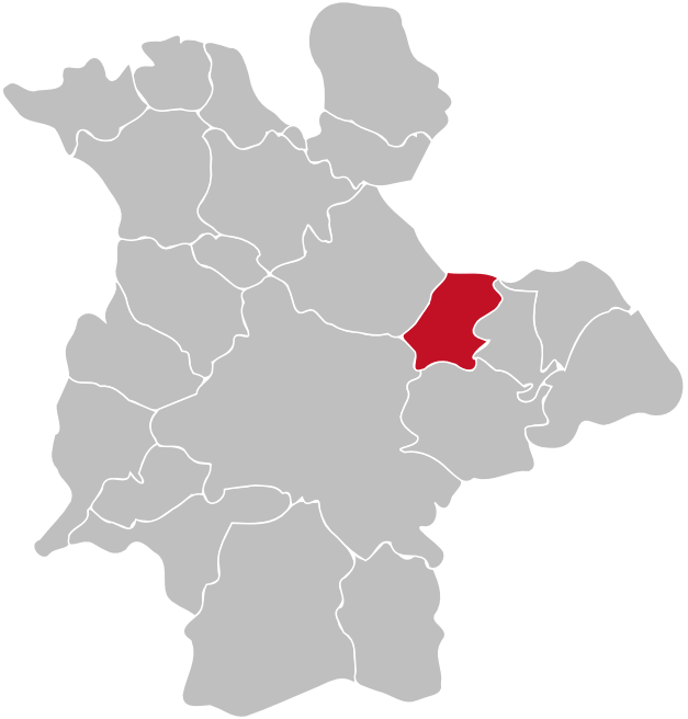 Location of the district Bürbach